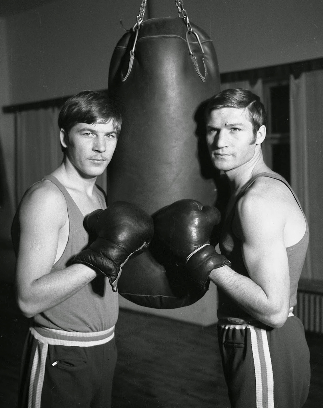 Simion (left) and Calistrat Cuţov